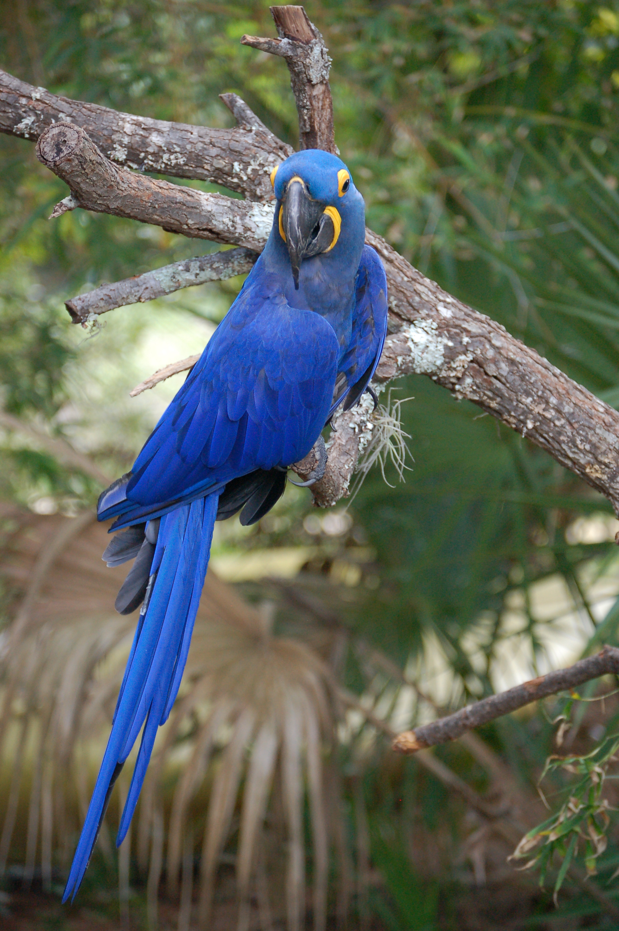 Hyacinth Macaw (Anodorhynchus hyacinthinus) or Hyacinthine Macaw at Melbourne Zoo, Australia.